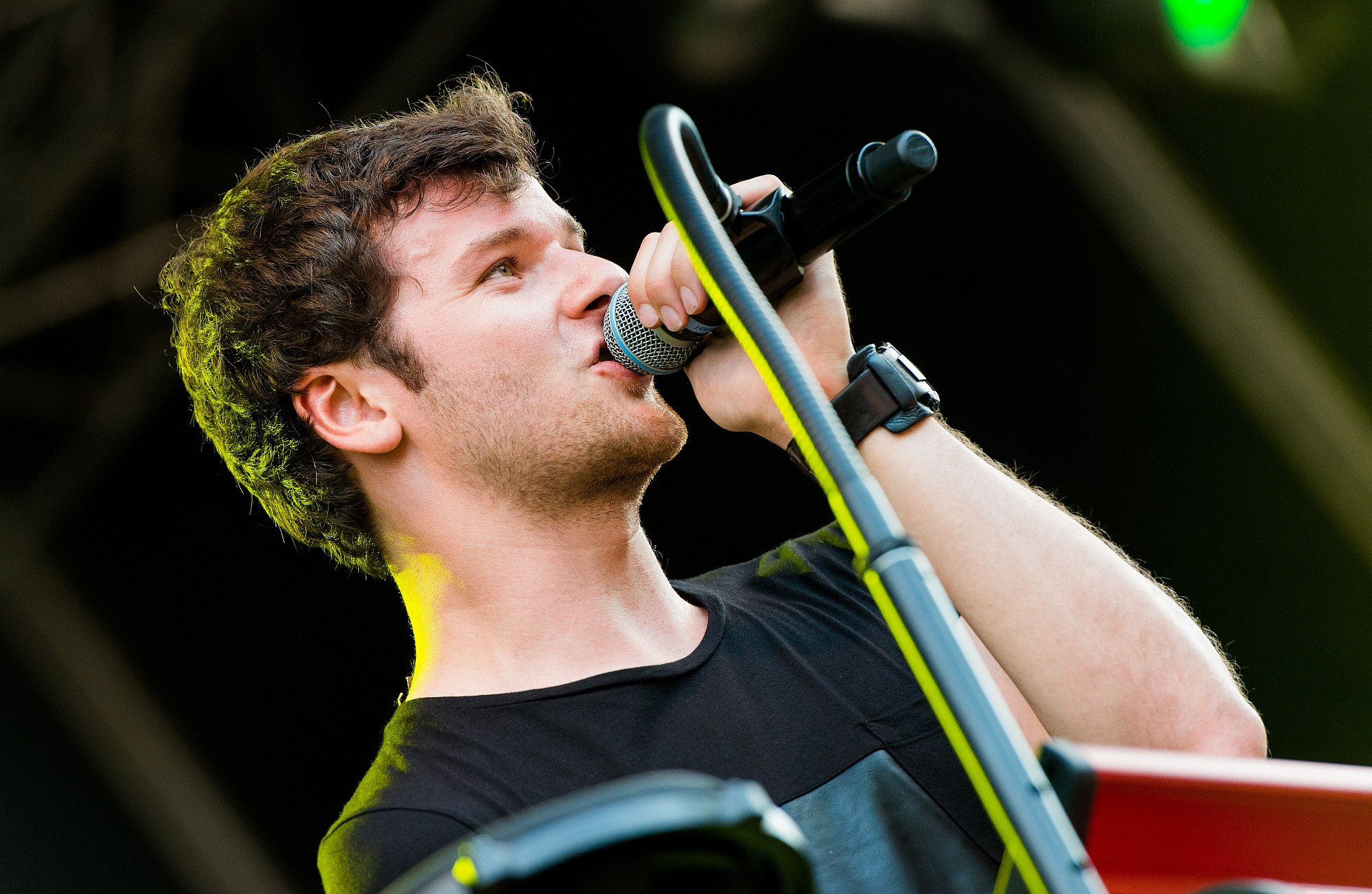 Glasperlenspiel at the Hohentwiel Festival 2013 in Singen, Germany